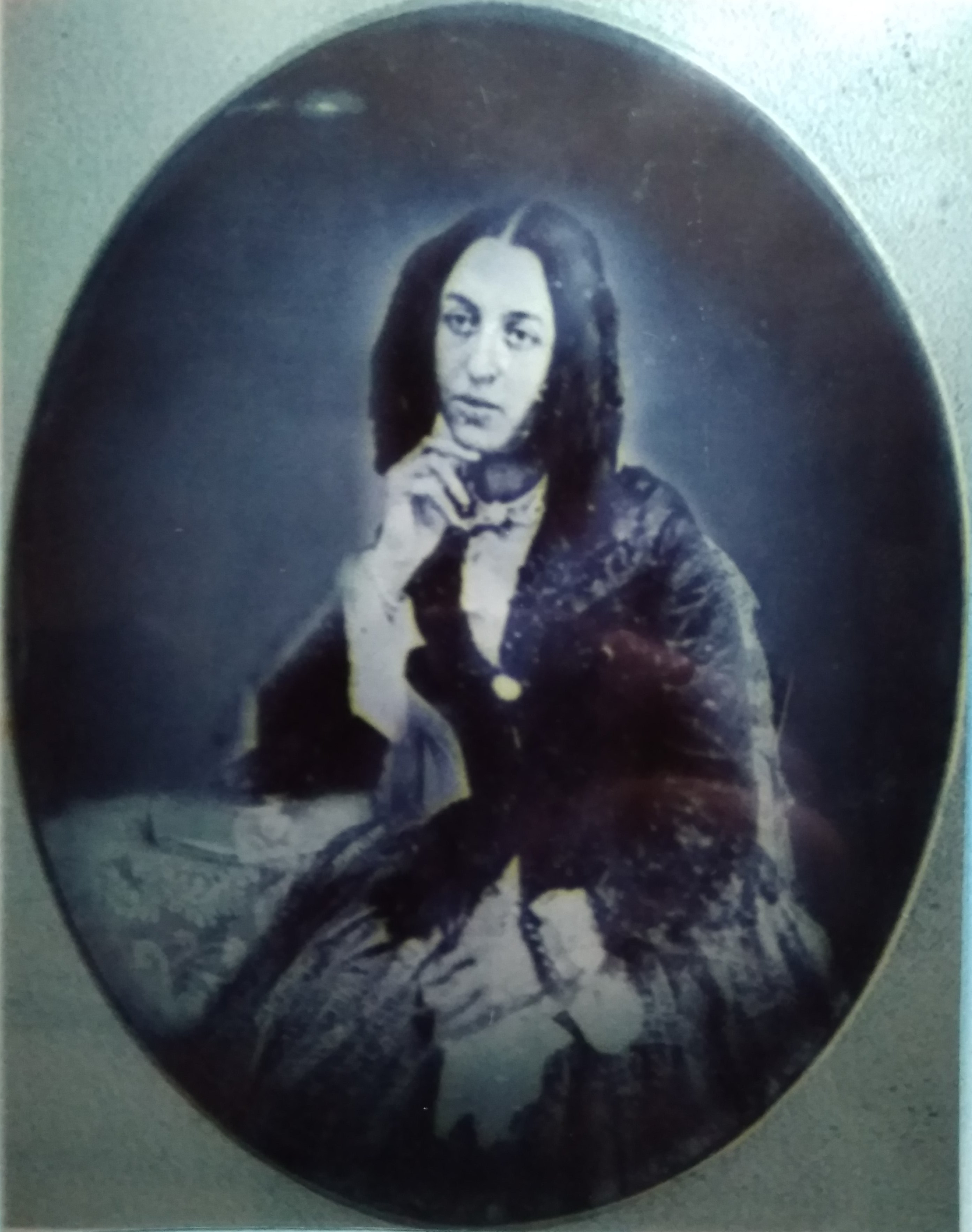 George Sand